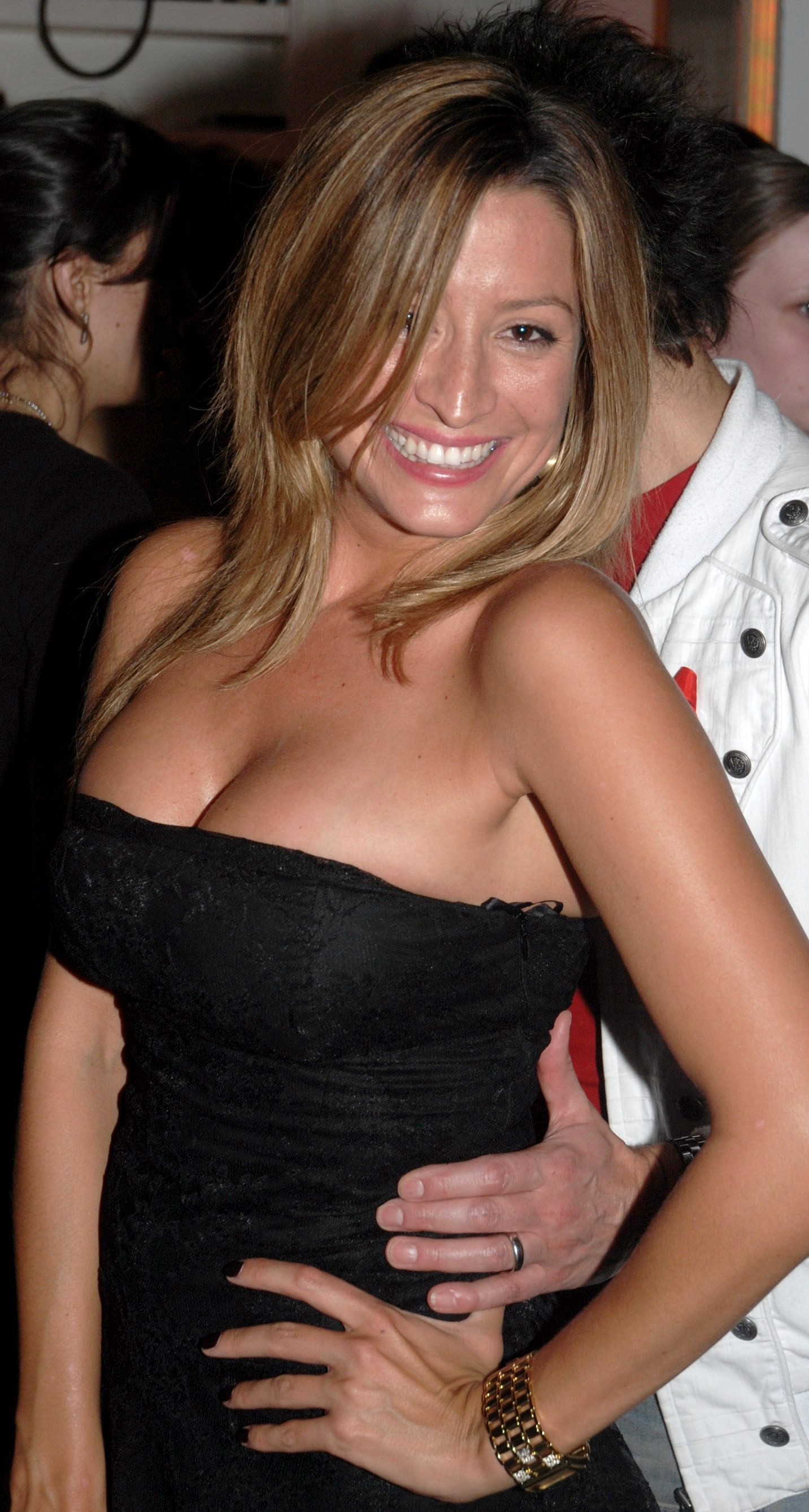 Rebecca Loos at the Red and Pink Party hosted by Emma Basden, 2006